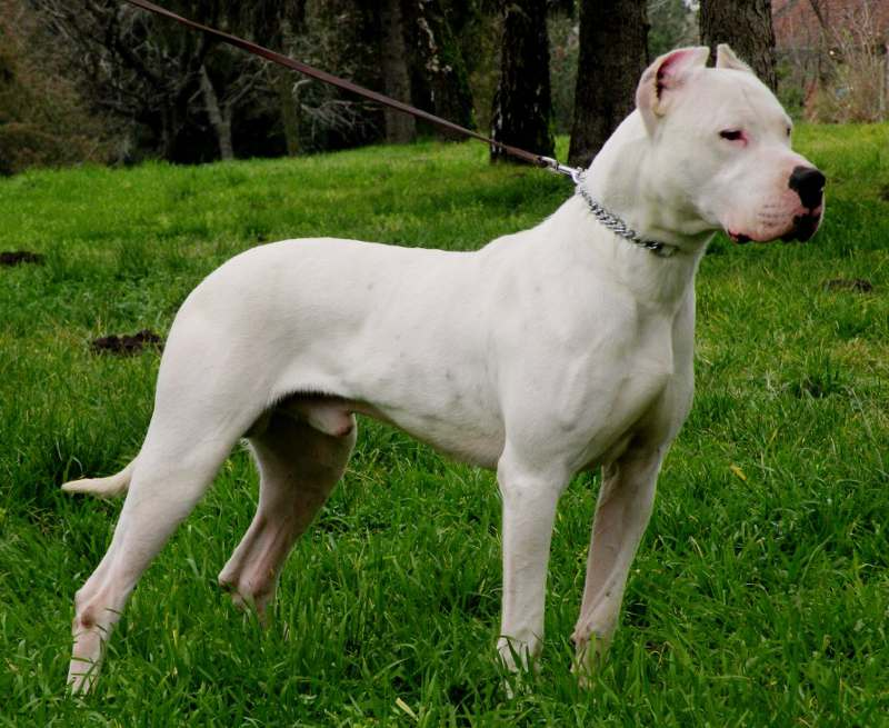 Dogo Argentino